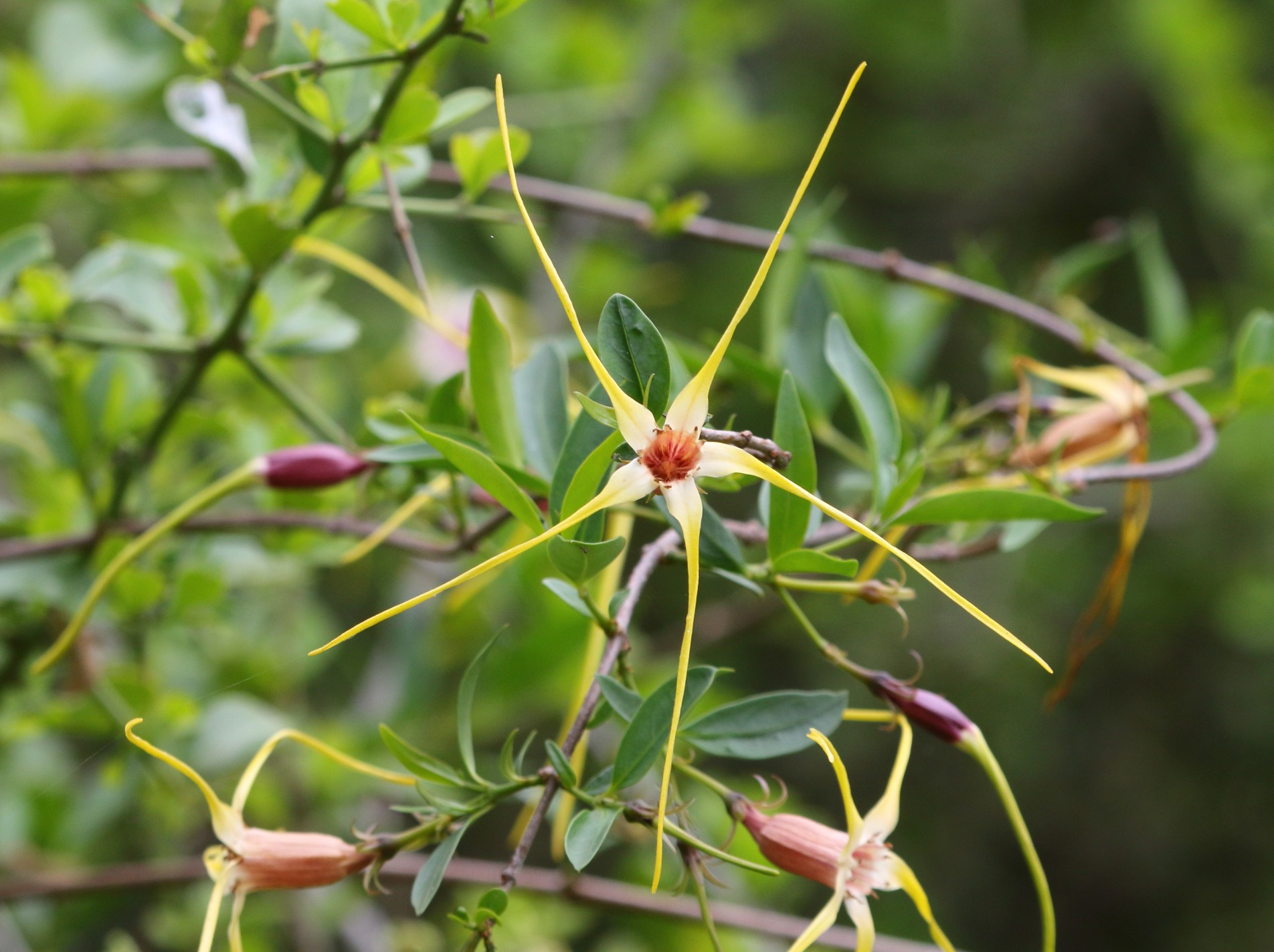 Strophanthus gerrardii; Nsumu Pan, Mkhuze Game Reserve, KwaZulu-Natal, South Africa. Common names for Strophanthus gerrardii include: Poison Rope, Ubuhlungubendlovu, Ukukhukhumeza ( [1] ).